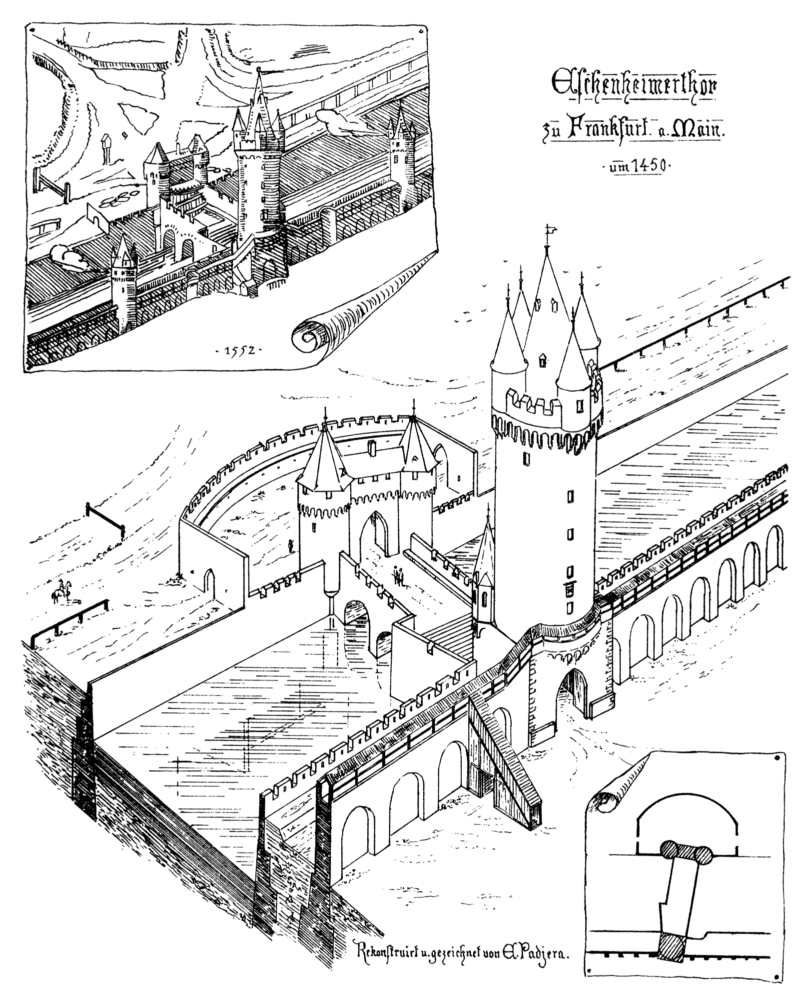 Frankfurt on the Main: Medieval outer defence of the Eschenheimer Tor (Eschenheimer gate) as of 1450, 1552 and a plan view as of 1632